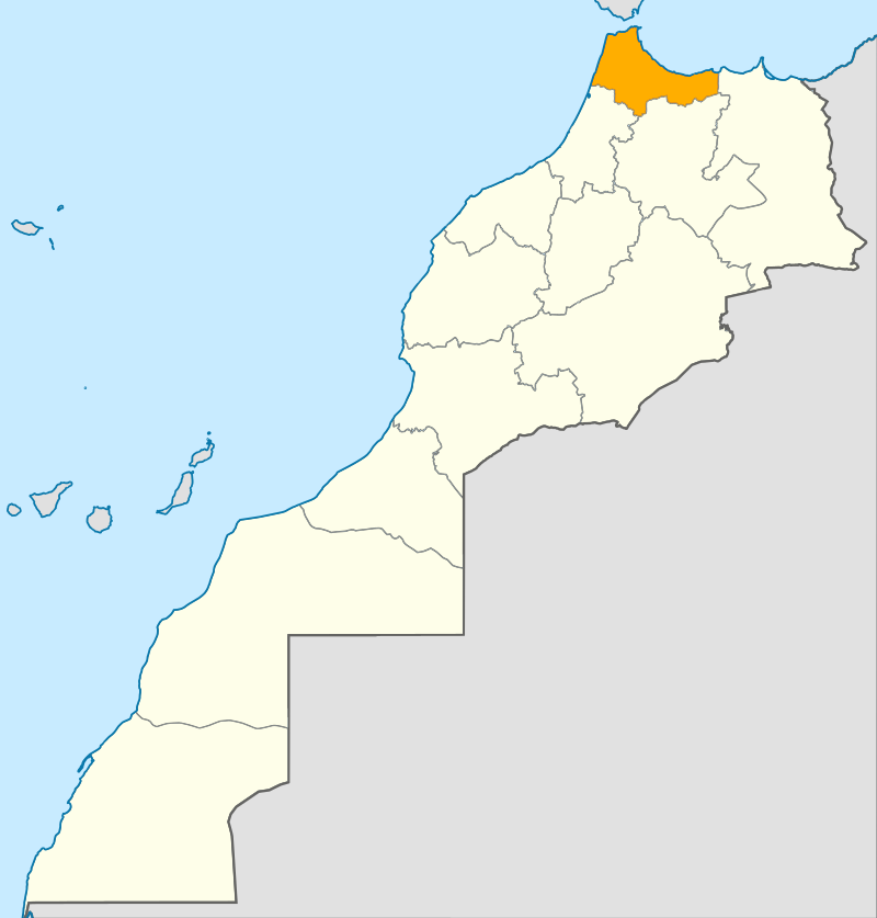 Tanger-Tetouan-Al Hoceima in Morocco (Morocco view)